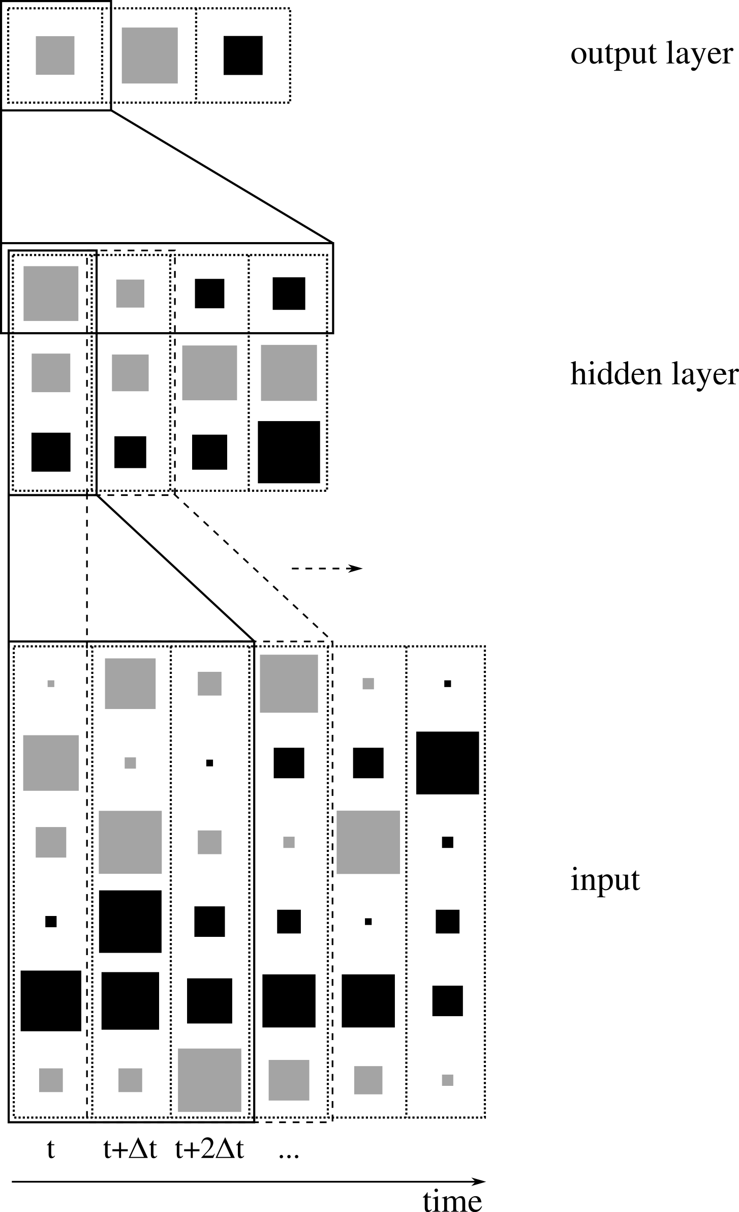 Diagram of a Time Delay Neural Networks (TDNN), a specific artificial neural network, with two layers.